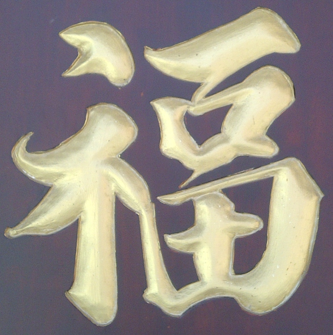 Chinese character Fu (prosperity)